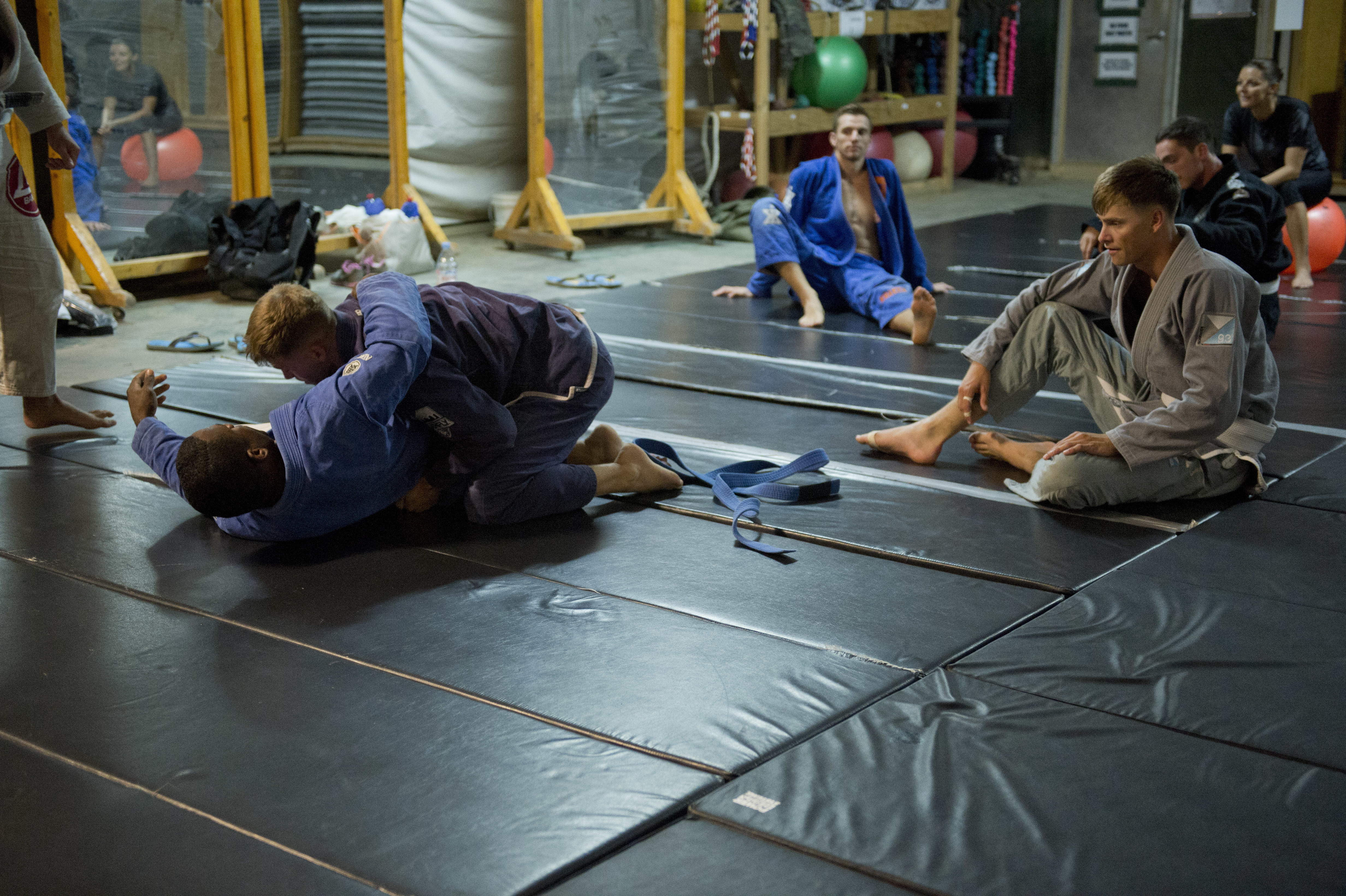 U.S. Air Force Senior Master Sgt. Chris Easter, Combined Joint Task Force-Horn of Africa J2 senior enlisted leader, and U.S. Navy Petty Officer 3rd Class Derek Smith, master at arms dog handler, left, practice Brazilian Jiu-Jitsu techniques July 27, 2014, at Camp Lemonnier, Djibouti. Jiu-jitsu is a martial art and combat sport that uses leverage and self-defense techniques to take down an opponent. It focuses on ground fighting and grappling. (U.S. Air Force photo by Staff Sgt. Leslie Keopka)